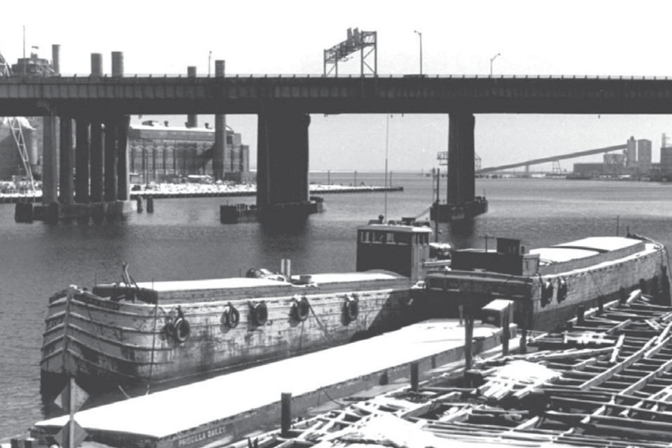 Three barges in the harbor of Bridgeport, Connecticut, in 1973. All three sank in 1974. At the rear right is the Elmer S. Dailey, at the front is the Priscilla Dailey, with the Berkshire No. 7 next to it.